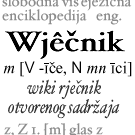 Croatian Wiktionary project logo